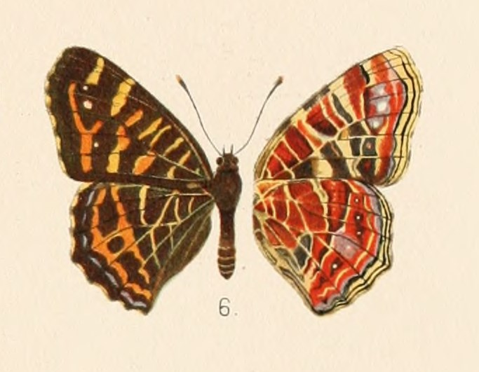 Araschnia davidis var. oreas John Henry Leech - Butterflies from China, Japan and Corea - Plate 26